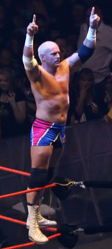 Bob 'Hardcore' Holly (Robert Howard) during his ring entrance. Taken during the WWE Raw - Survivor Series Tour, at Rod Laver Arena, Melbourne Park, Melbourne, Australia. Holly wrestled Mr Kennedy on the night; the match was won by Kennedy pinning Holly with a roll-up.